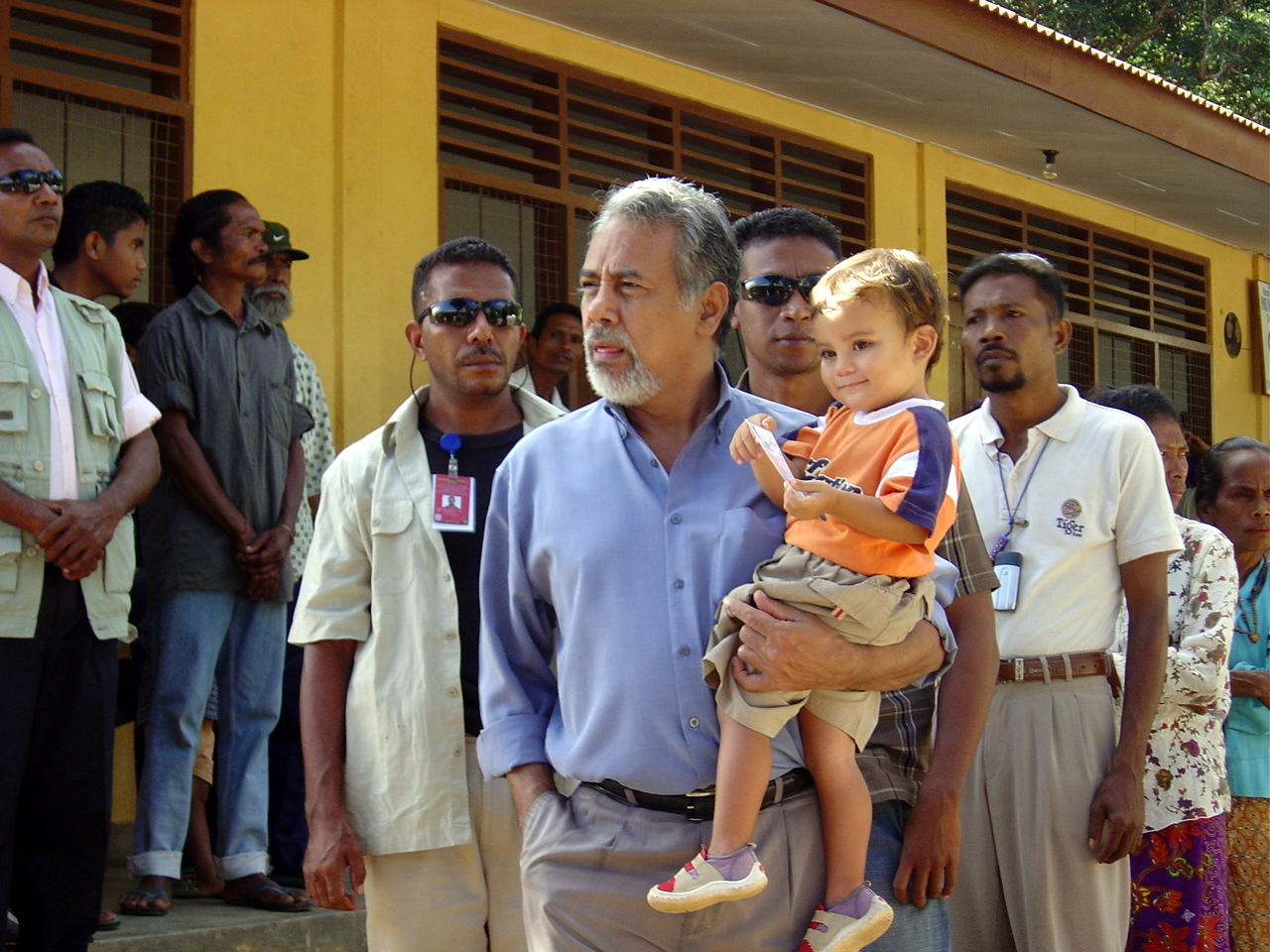 Xanana Gusmão with son at presidental election 2007